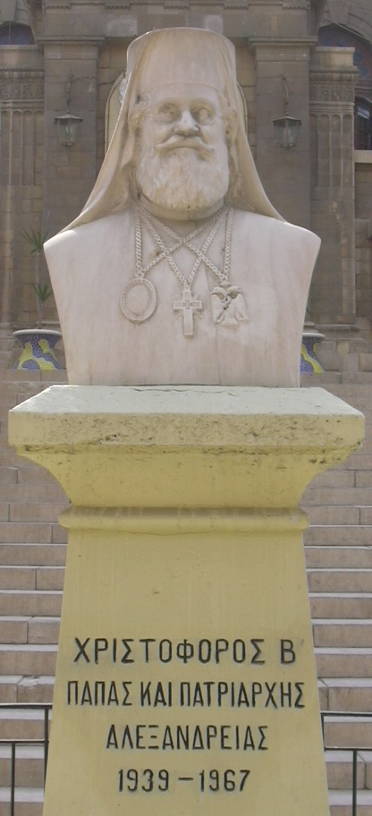 Bust of Christopher II (Χριστόφορος ο Β΄, Πατριάρχης και Πάπας Αλεξανδρείας και πάσης Αφρικής), Greek Orthodox patriarch of Alexandria from 1939 to 1966. It's located between the St. George's Convent and the St. George's Church in Cairo, Egypt